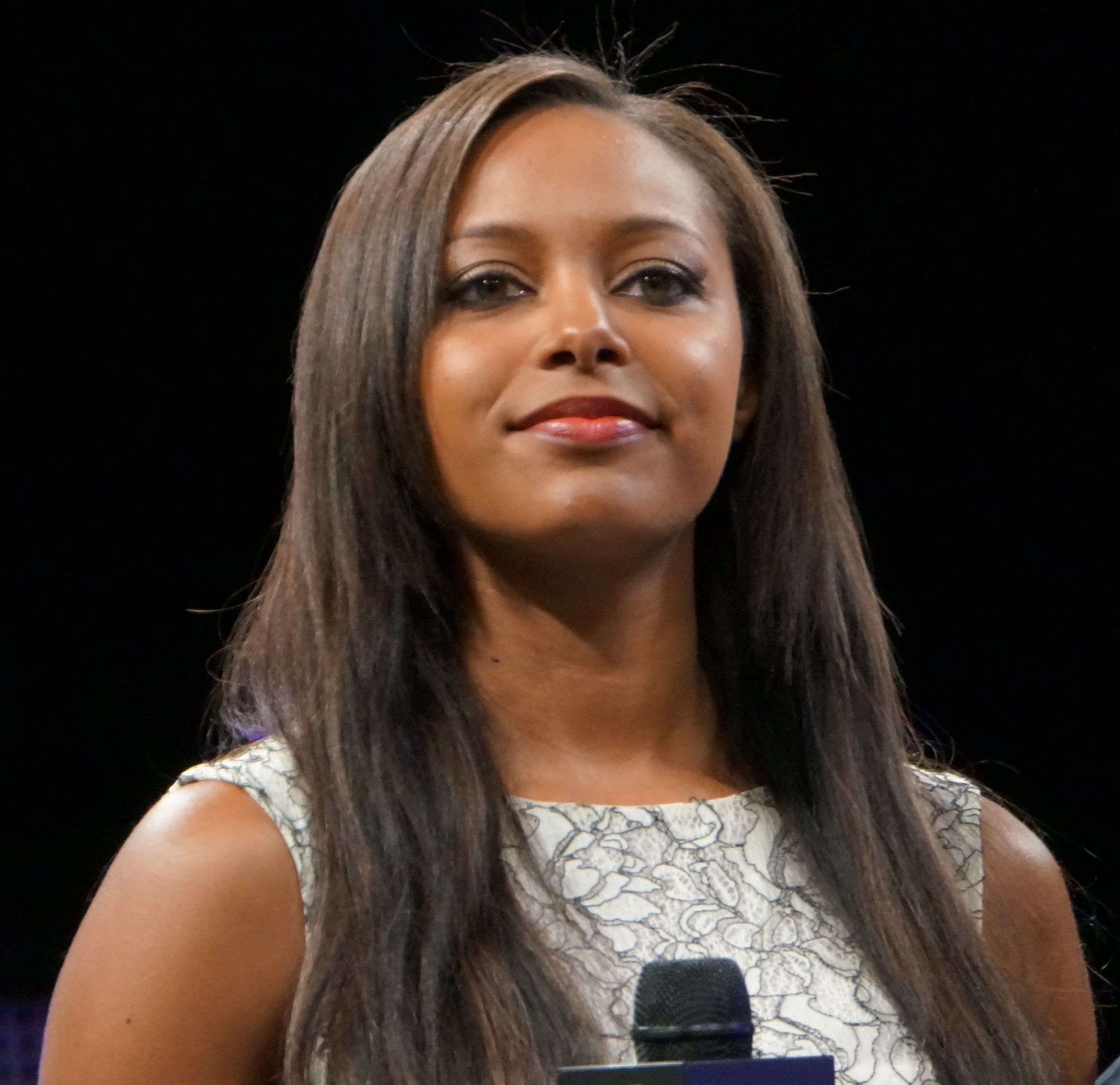 Eden Stiles in-ring for WWE Axxess 2014. Originally taken 4/5/14, cropped for focus on subject.